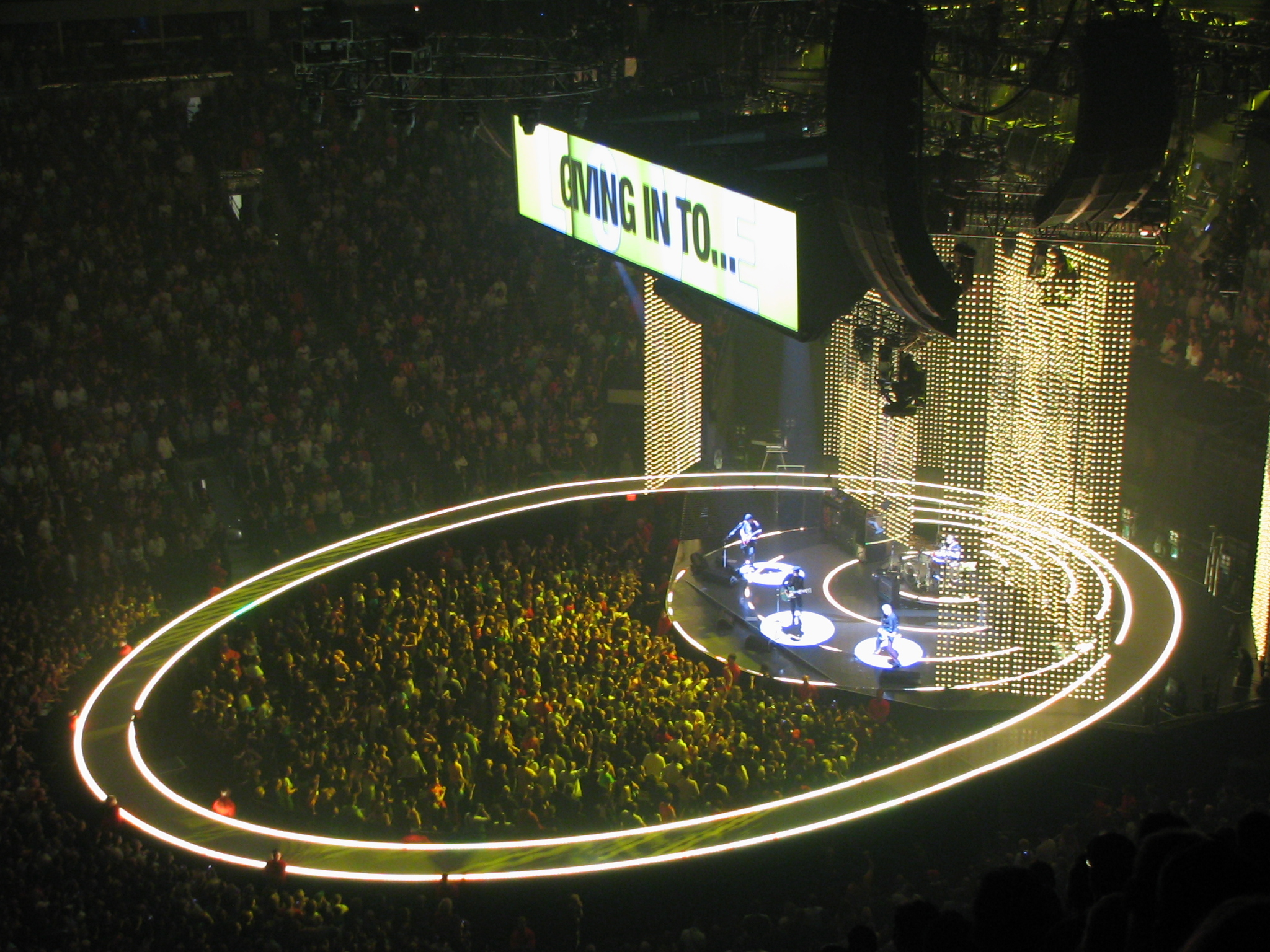 U2 performing in Toronto during the Vertigo Tour on September 16, 2005